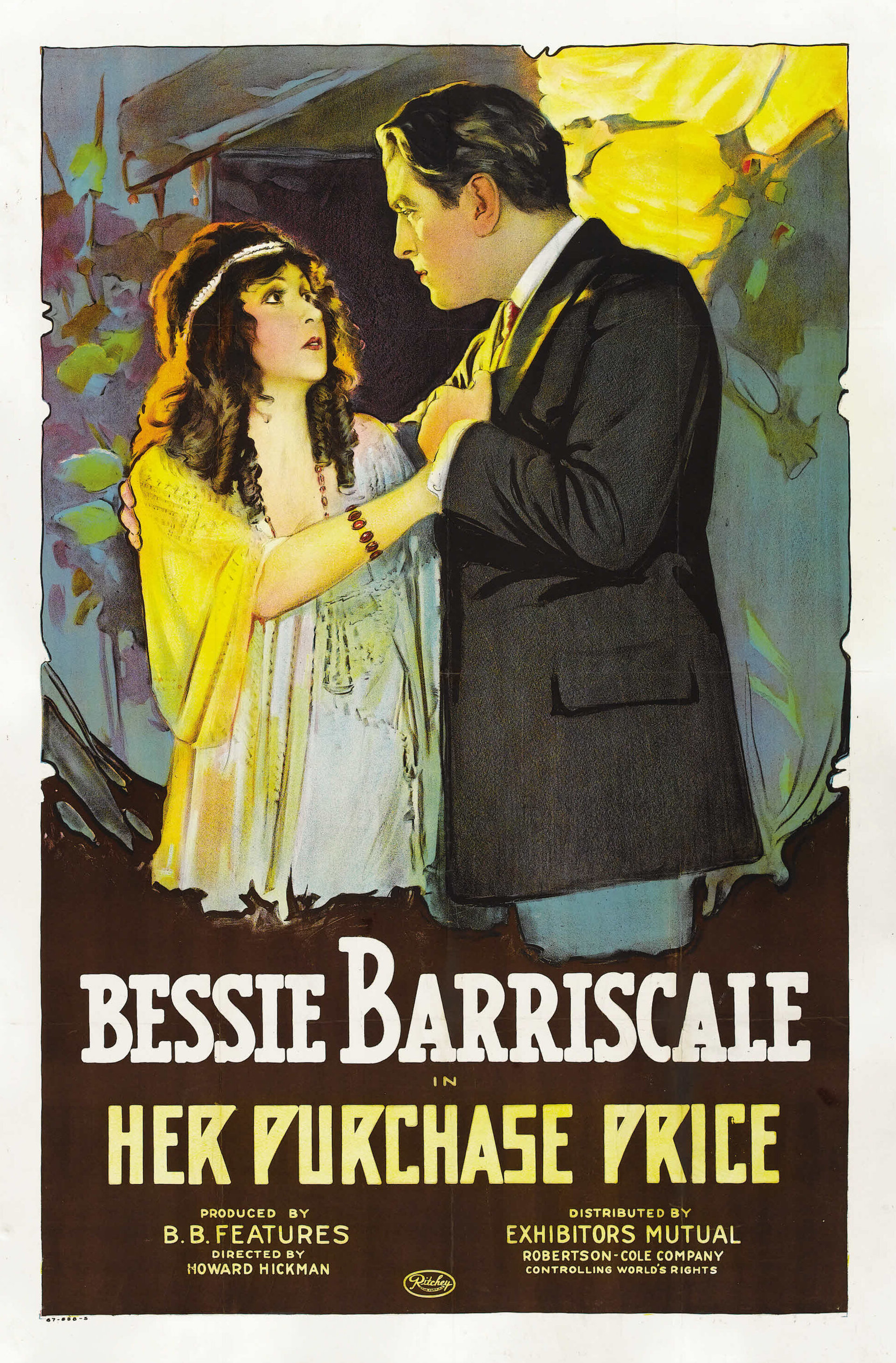 Bessie Barriscale and Alan Roscoe in the film Her Purchase Price (1919) - promotional poster